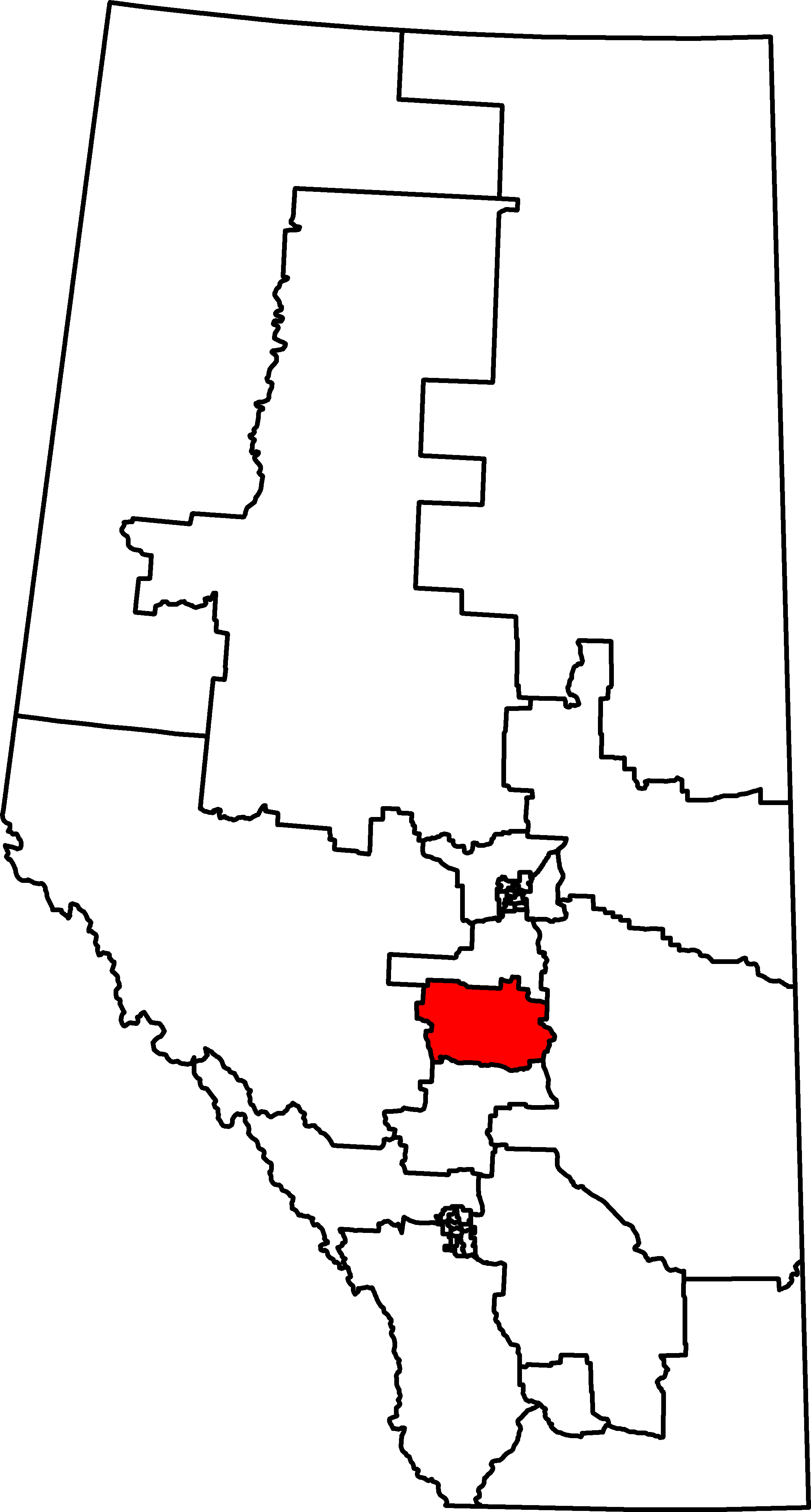 Federal Electoral District in Alberta, Canada as of the 2013 Representation Order.